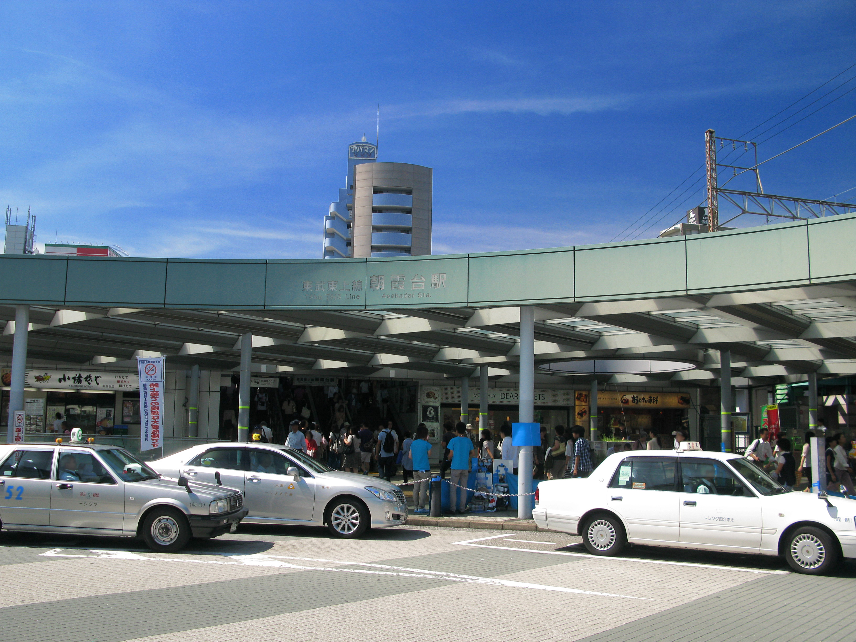 North entrance of Asakadai Station on the Tobu Tojo Line